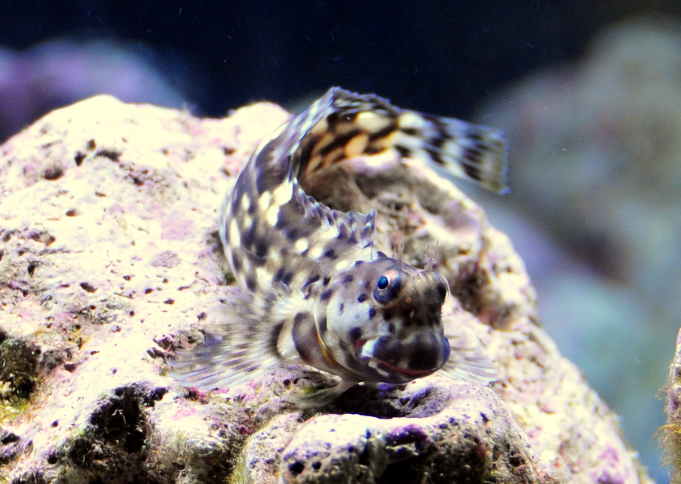 Lawnmower Blenny (Salarias fasciatus)